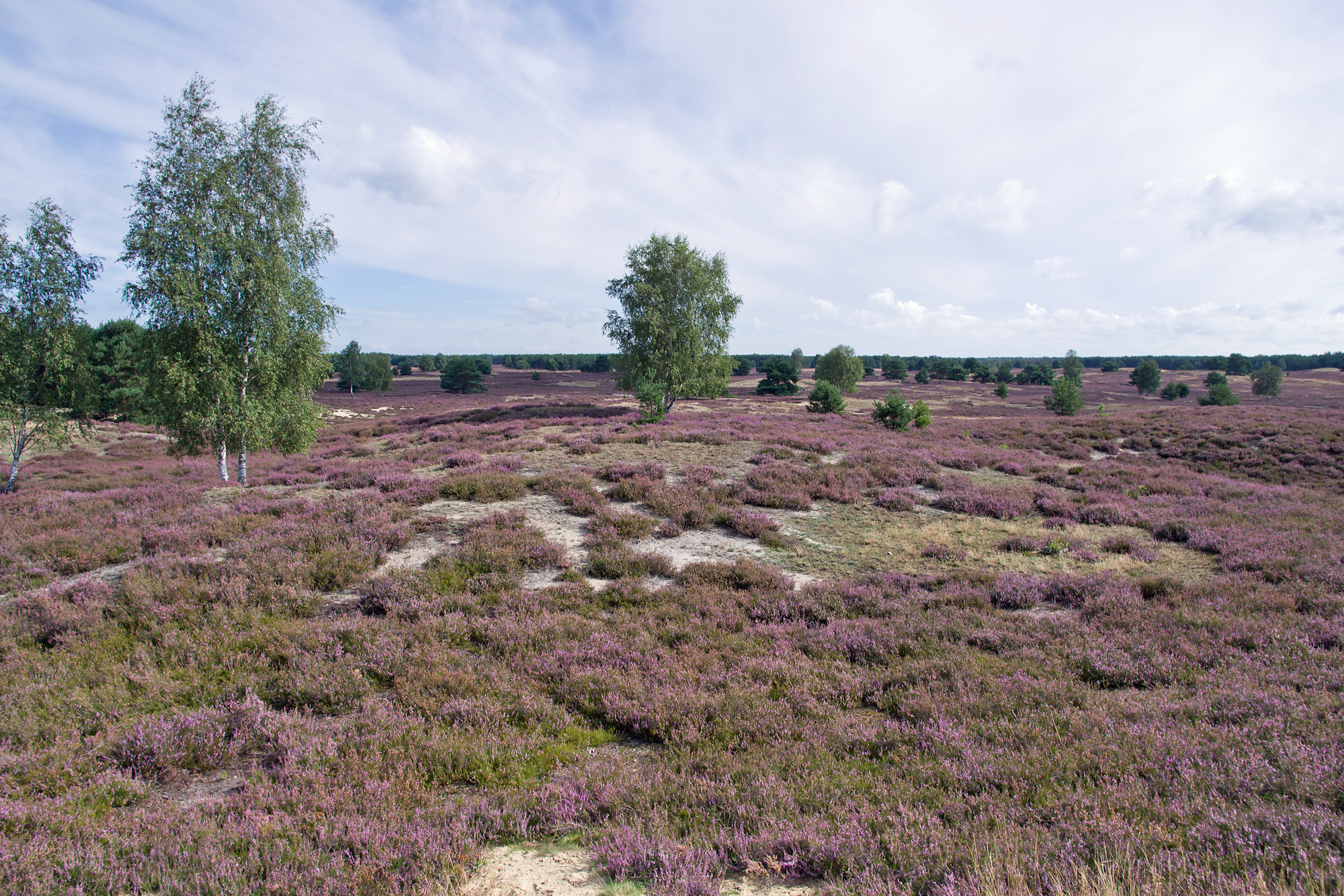 Sandy landscape Nemitzer Heide (Nemitz Heathland) with aspect of flowering Common Heather, Calluna vulgaris. Area developed after forest fires in 1975.